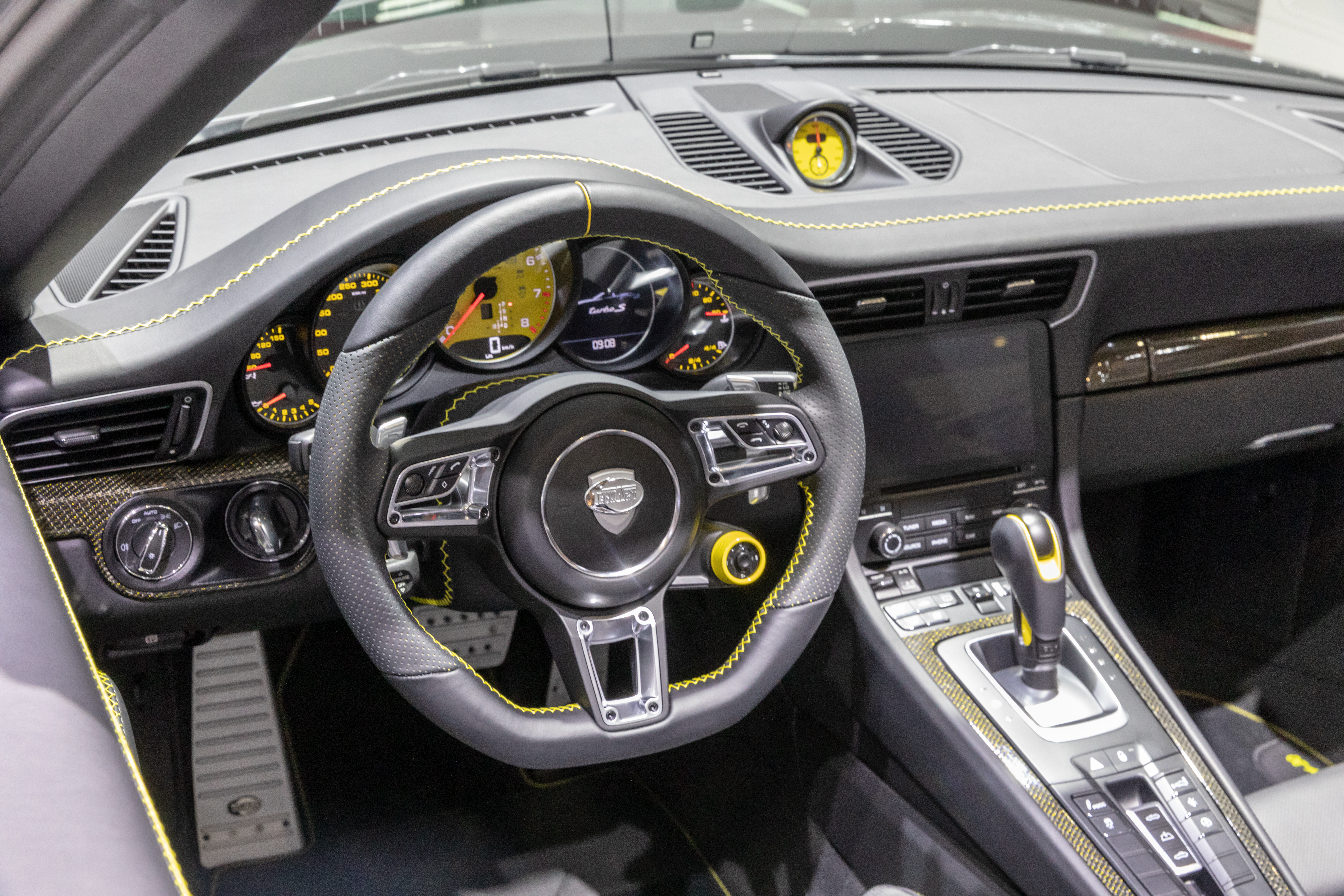 Geneva International Motor Show 2019, Le Grand-Saconnex